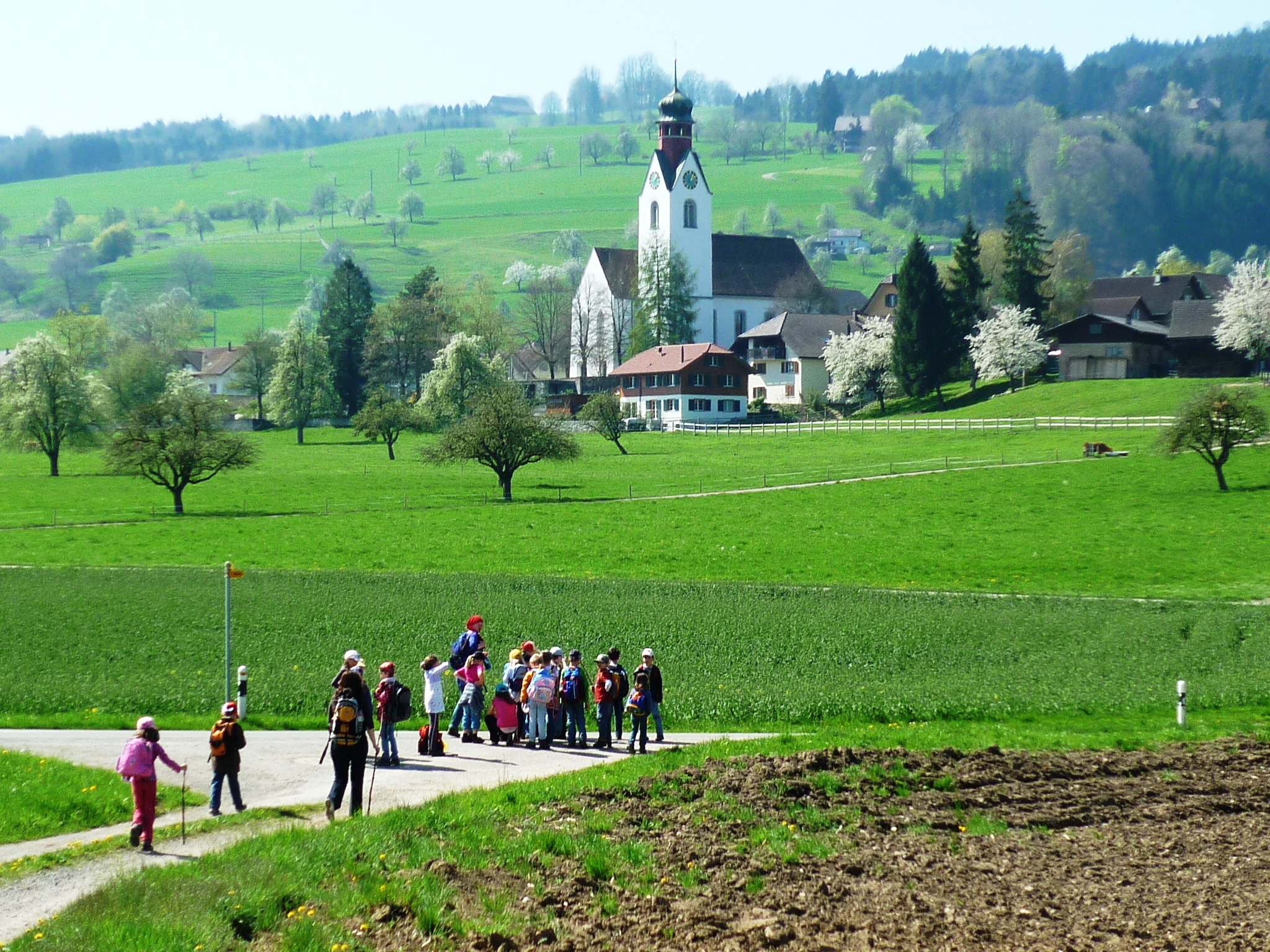 Beinwil (Freiamt) AG, Switzerland Beinwil (Freiamt) AG, Schweiz